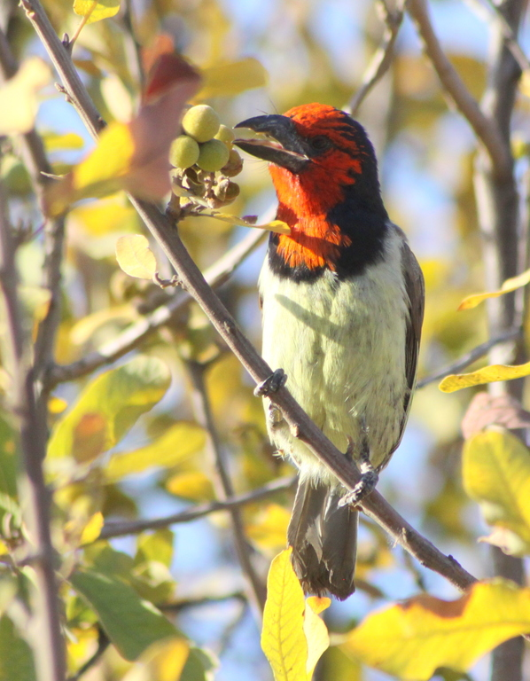 A Black-collared Barbet feeding on fruit of a Jacket-plum at Walter Sisulu National Botanical Garden, near Roodepoort, Johannesburg, South Africa